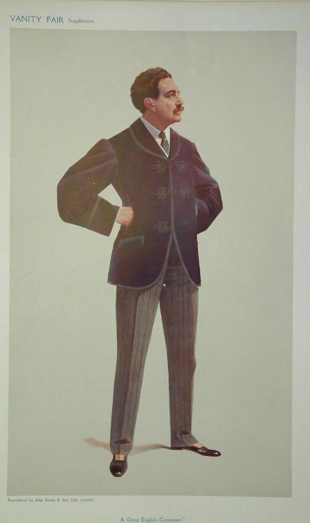 Caricature of Isidore de Lara (1858-1935). Caption read "A Great English Composer".